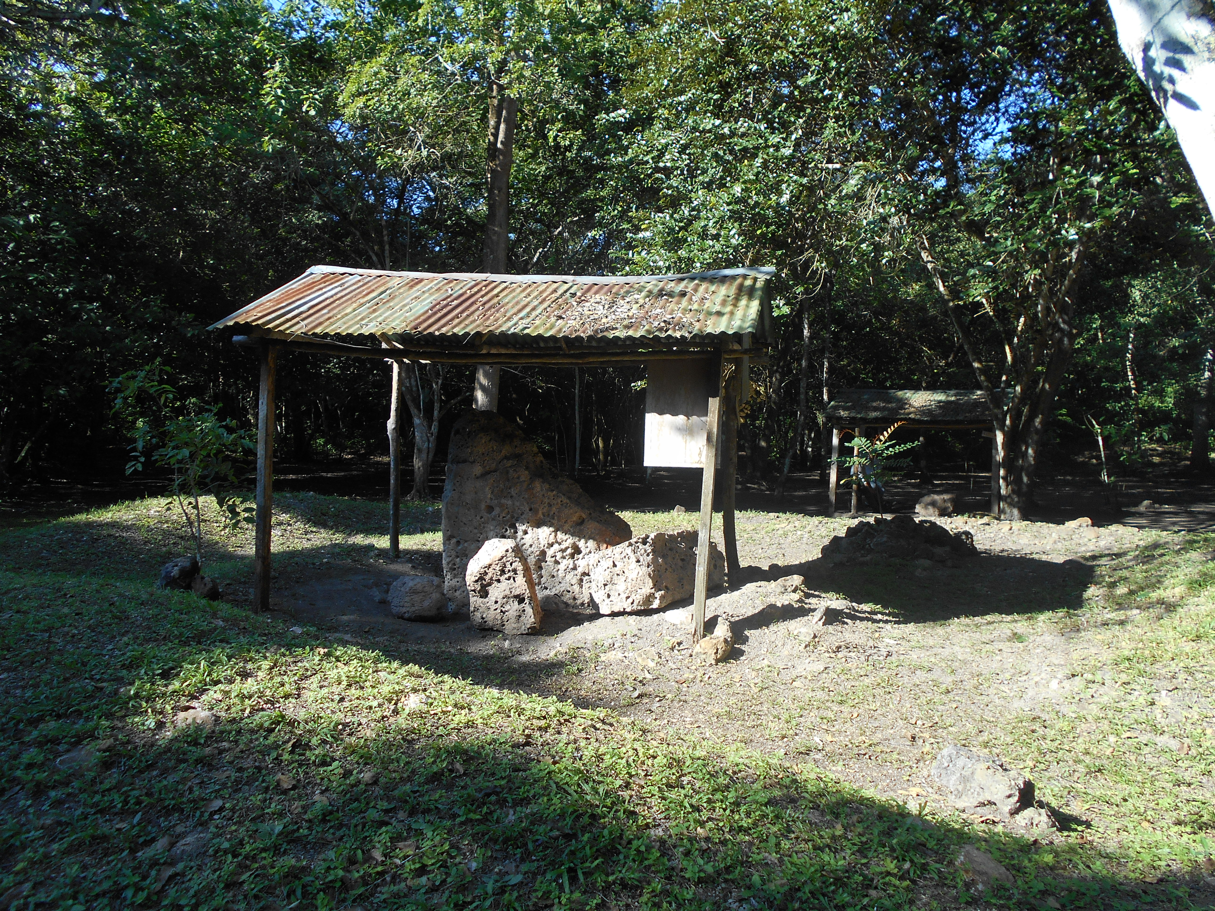 Tayazal archaeological site of the Late Classic Maya, located on the San Miguel peninsula, immediately north of Flores, Petén, Guatemala.